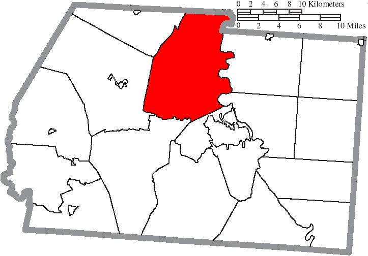 Map of the municipal and township boundaries of Ross County, Ohio, United States, as of the 2000 census, with the location of Union Township highlighted. Township borders are shown only in unincorporated areas in order to differentiate incorporated and unincorporated areas more clearly.